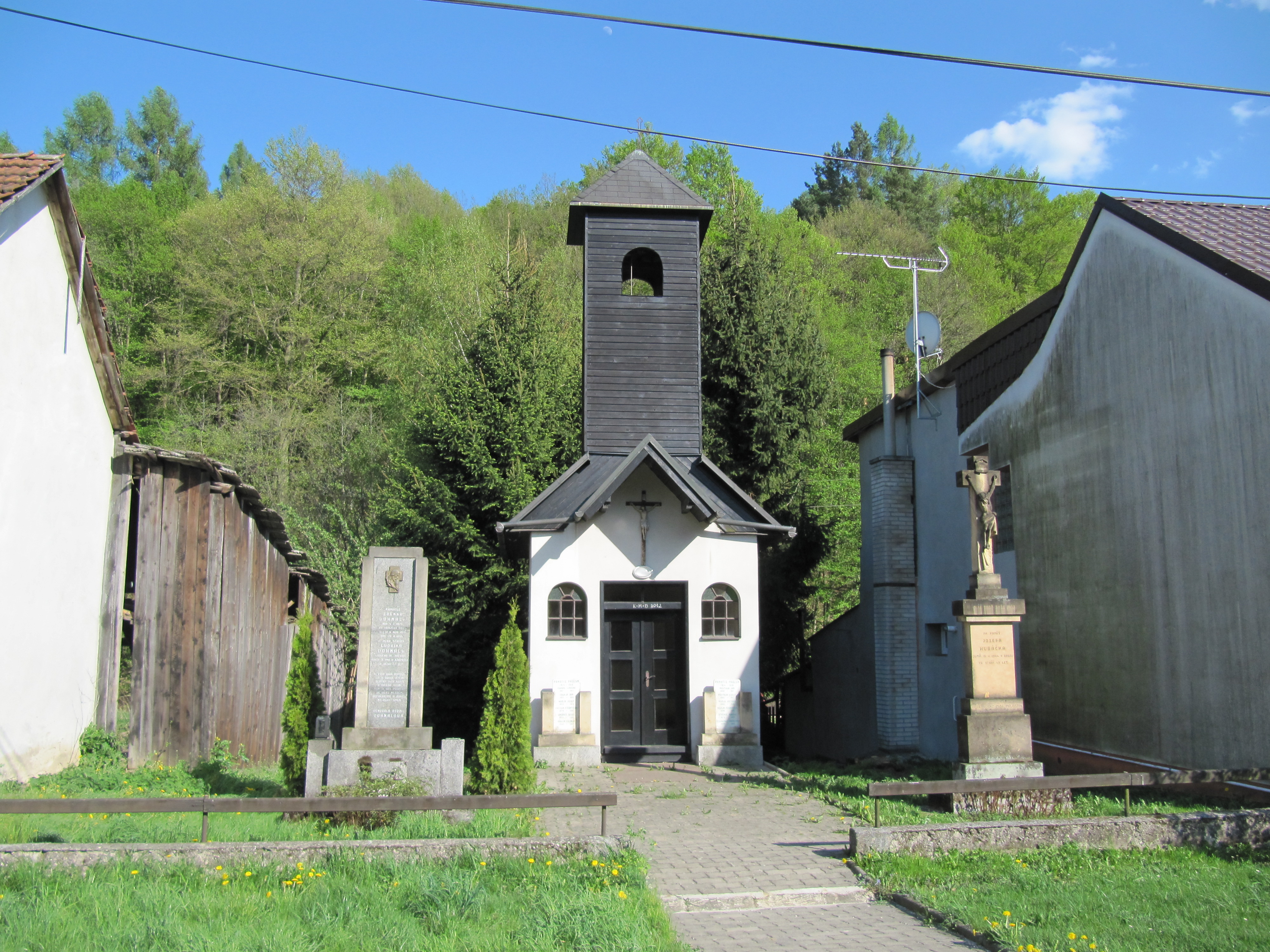 Šarovy in Zlín District, Czech Republic. World War I memorial, chapel and crucifix.